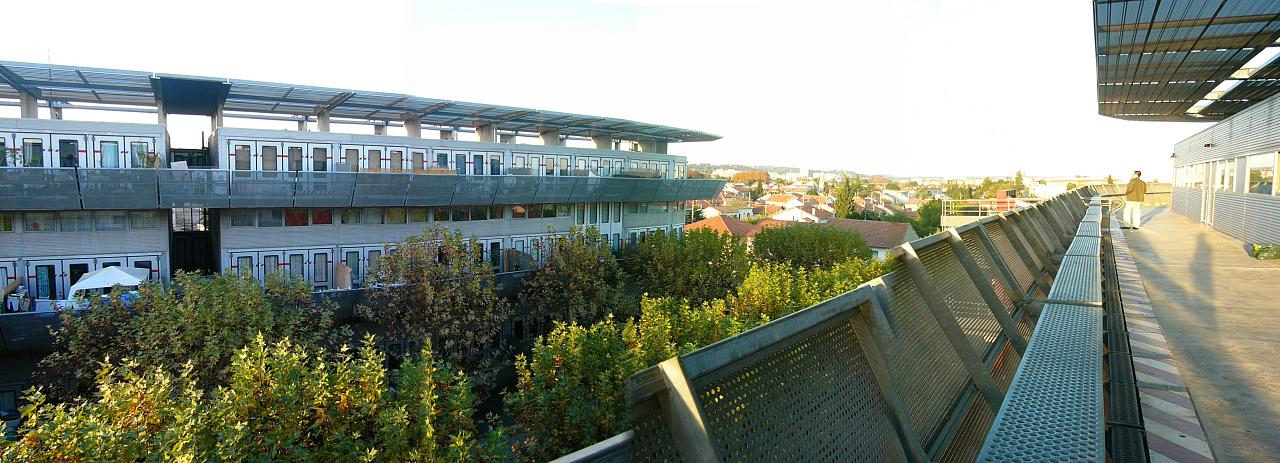 Jean Nouvel - Nemausus Apartments, Nimes, 1987-94